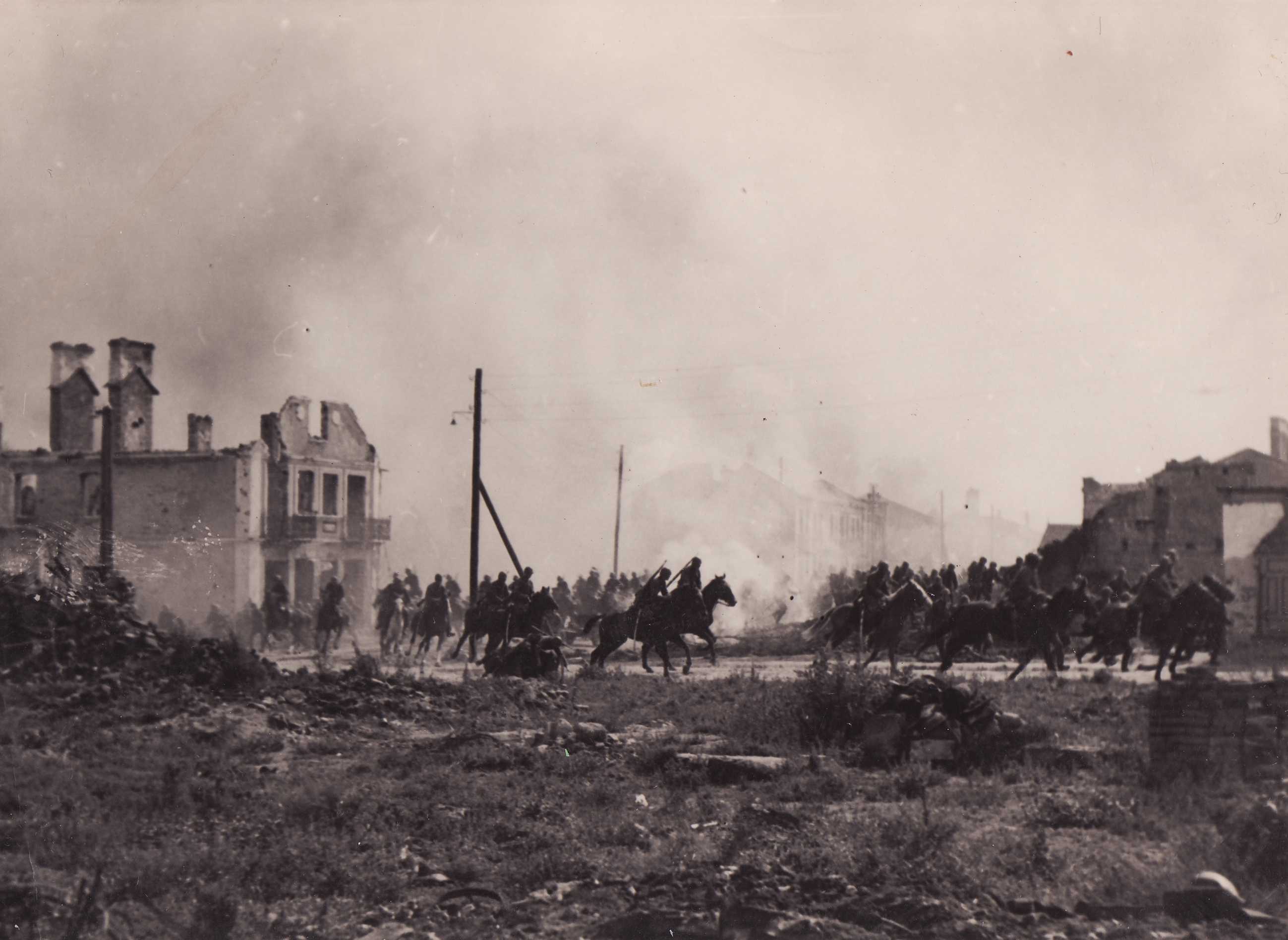 This photograph was published in numerous sources, each with different description: Battle of the Bzura: Polish cavalry in Sochaczew in 1939[1]. Cavalry of Poznań Army in fight in Uniejów region[2]. Bydgoszcz, September 1939[3]. Polish cavalry, September 1939[4]. Wielkopolska Cavalry Brigade in Sochaczew. [5] Frame from German propaganda movie Kampfgeschwader Lützow depicting Polish cavalry. [6]